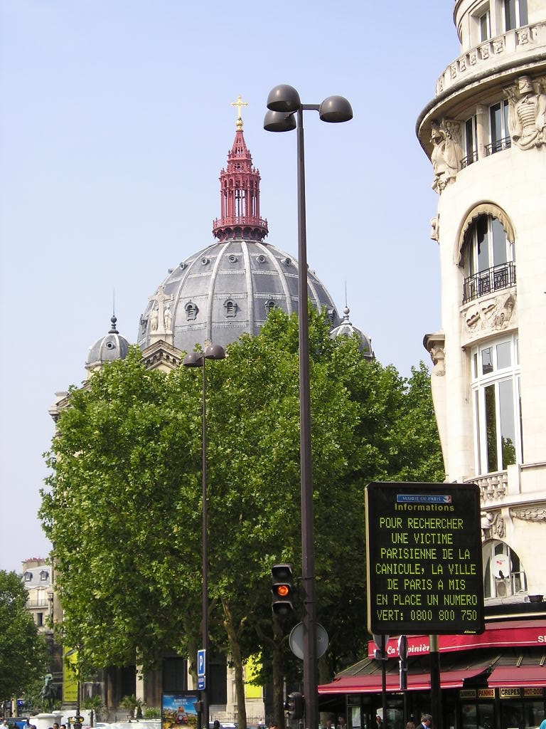 City annoucement in Paris after the 2003 European heat wave. The message gave a free phone number for people who needs to find if a member of their family died of heat.